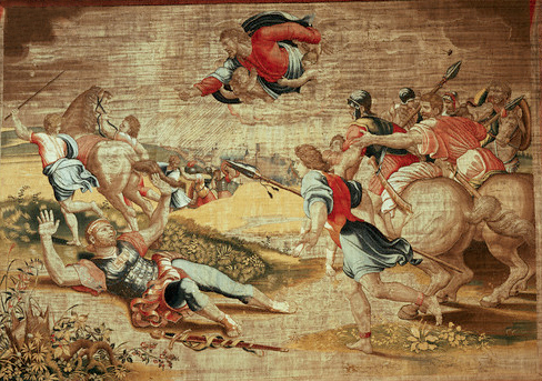 Rapahel tapestry Tapestry Musei Vaticani, Rome